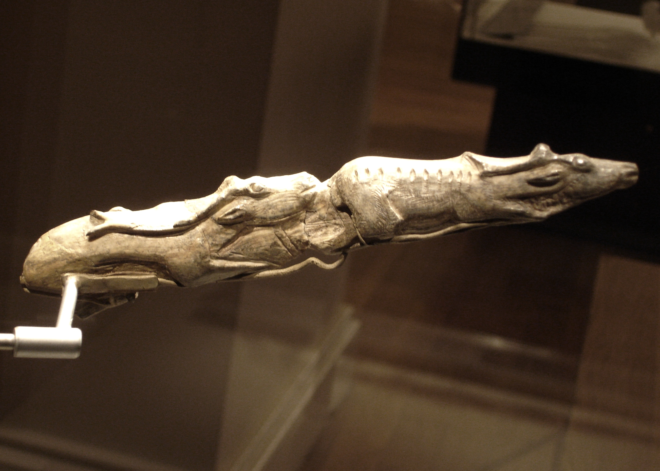 female and male swimming reindeer - late Magdalenian period, approximately 12,500 years old found at Montastruc, Tarn et Garonne, France